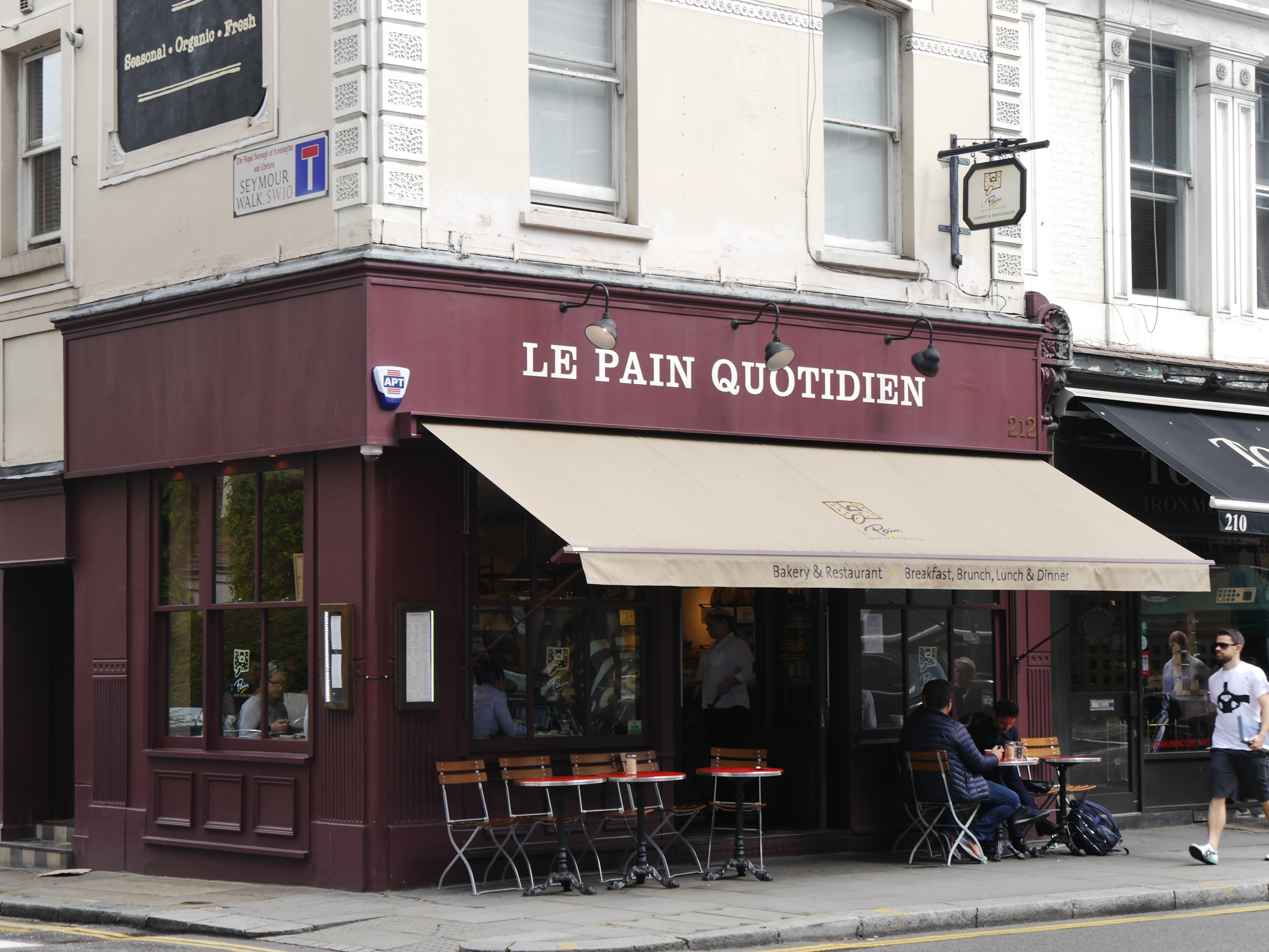 Fulham Road, Chelsea